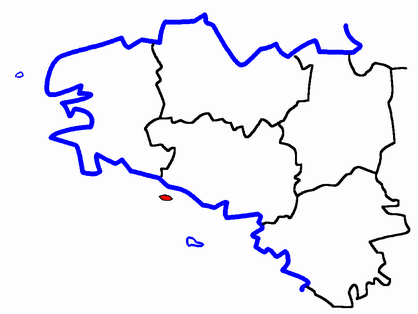 Description: Map for localisazion of cantons of Bretagne region in France Source: made by Hervé Tigier in april 2005 from another large map (published in 1990)